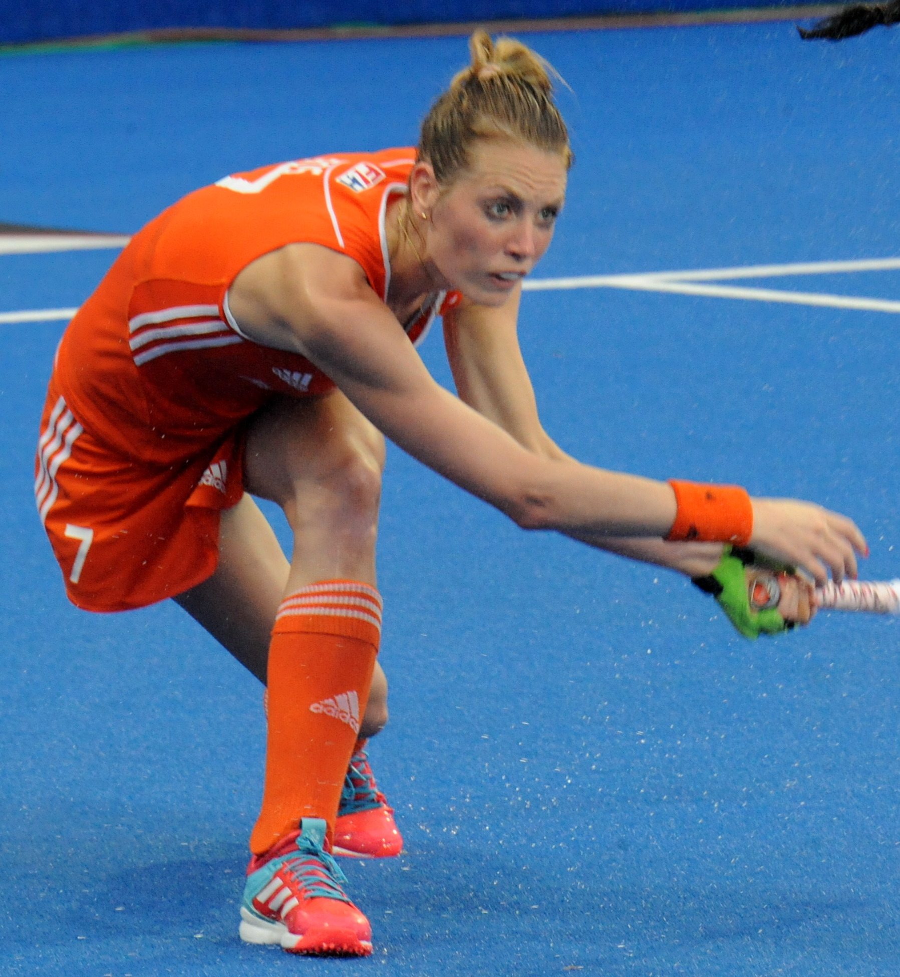 CT 2016: Australia v Netherlands